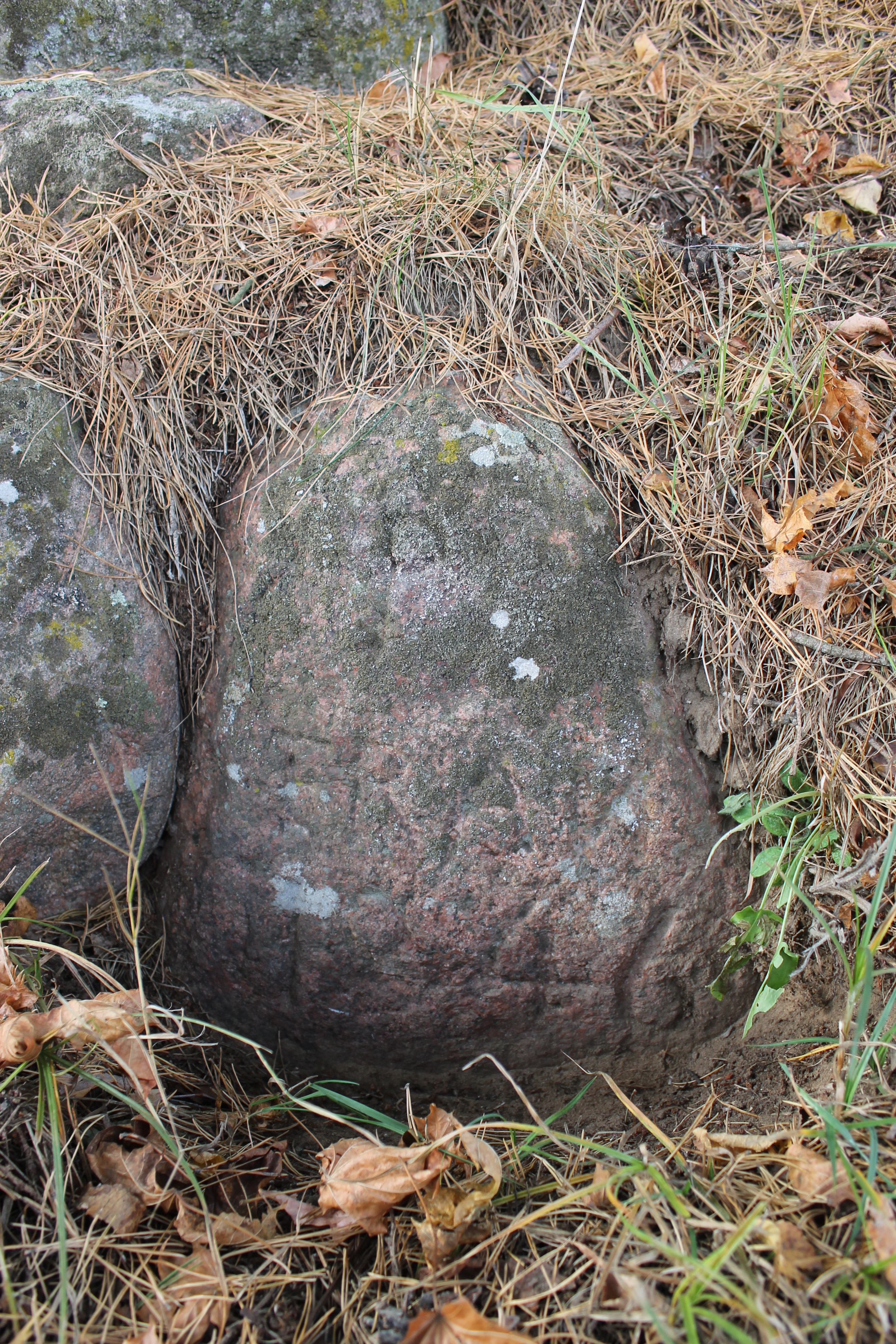 Juodupėnai old cemetery, Kretinga district, Lithuania